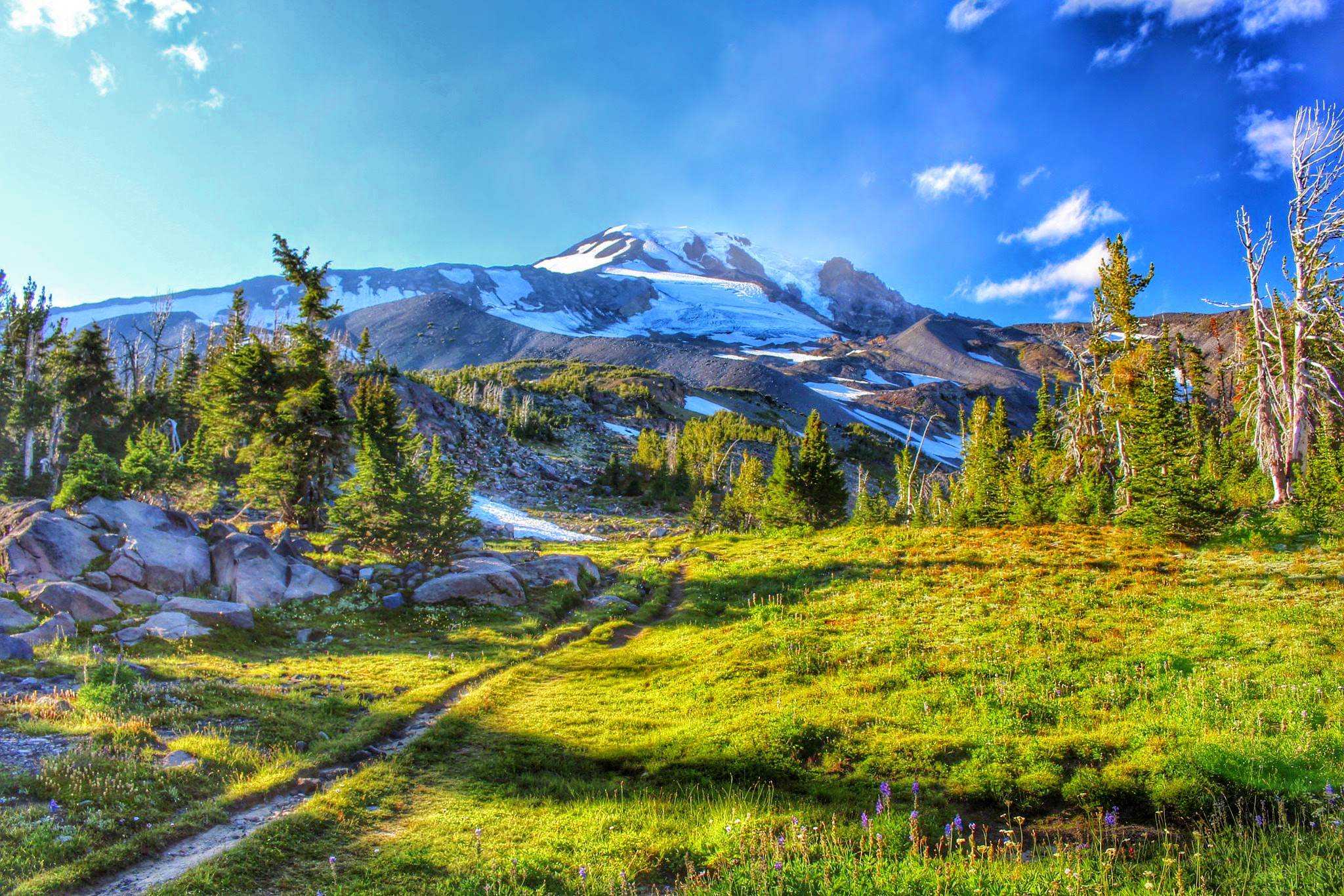 Taken just above the Hellroaring Canyon Overlook, on Trail #20. This is the SE side of the mountain.